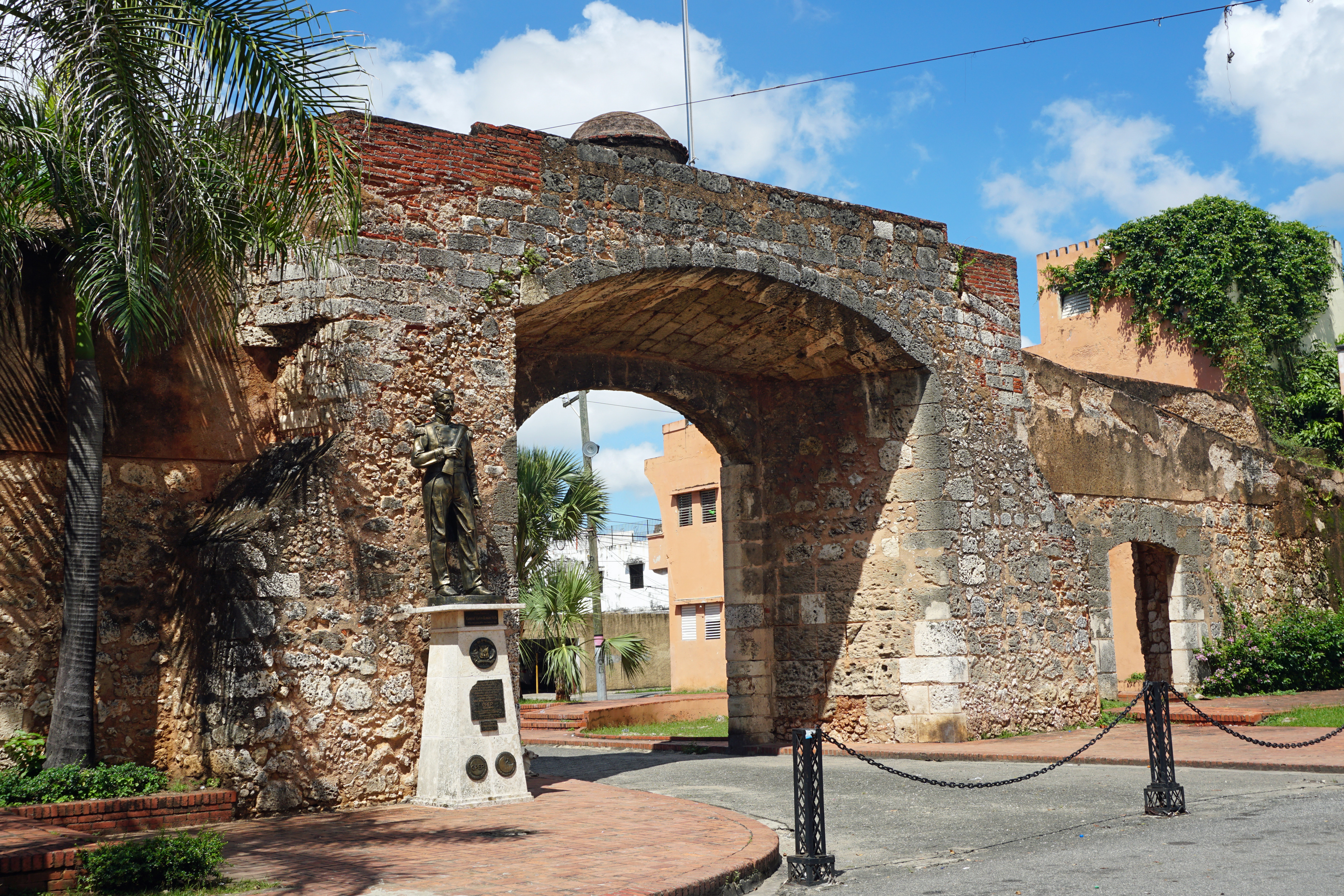 Puerta de la Misericordia, Ciudad Colonial Santo Domingo, Dominican Republic.